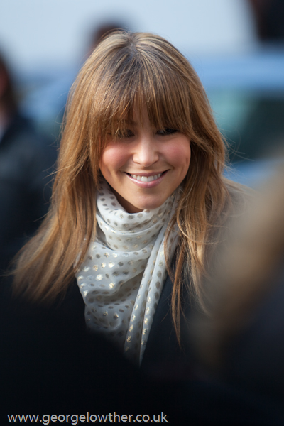 Rachel Stevens attending London Fashion Week 2010